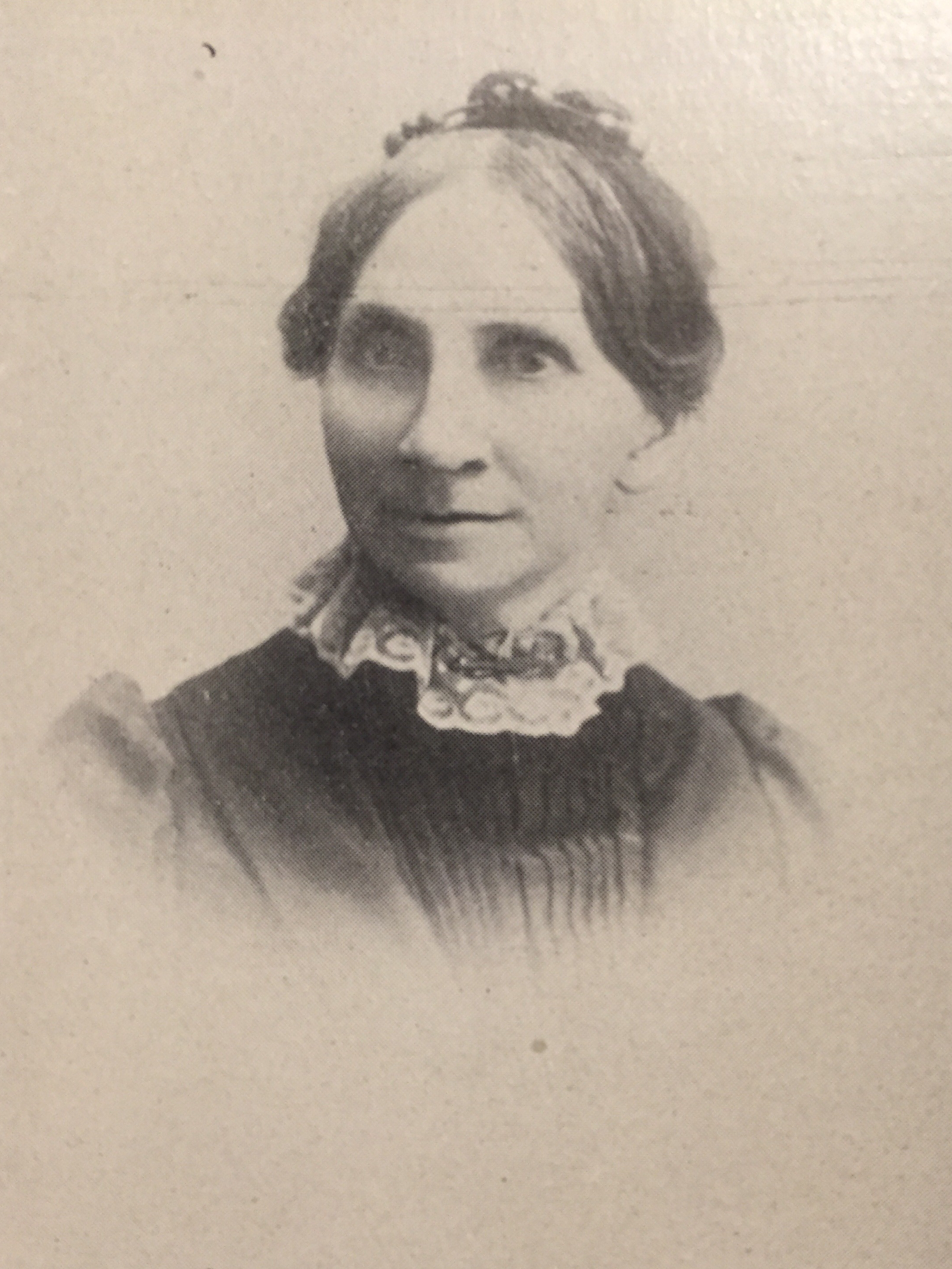 Harriet Calista Clark McCabe